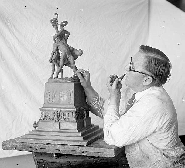 Swedish-born American sculptor Peter David Edstrom (1873–1938)